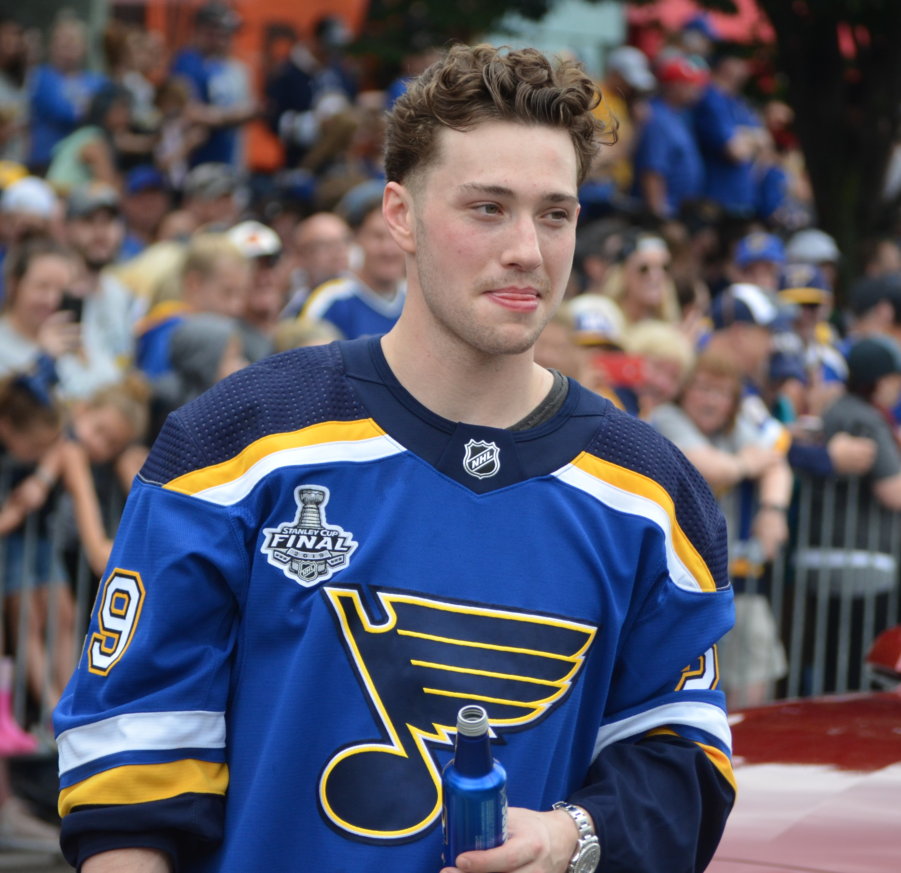 Vince Dunn during the 2019 Stanley Cup parade